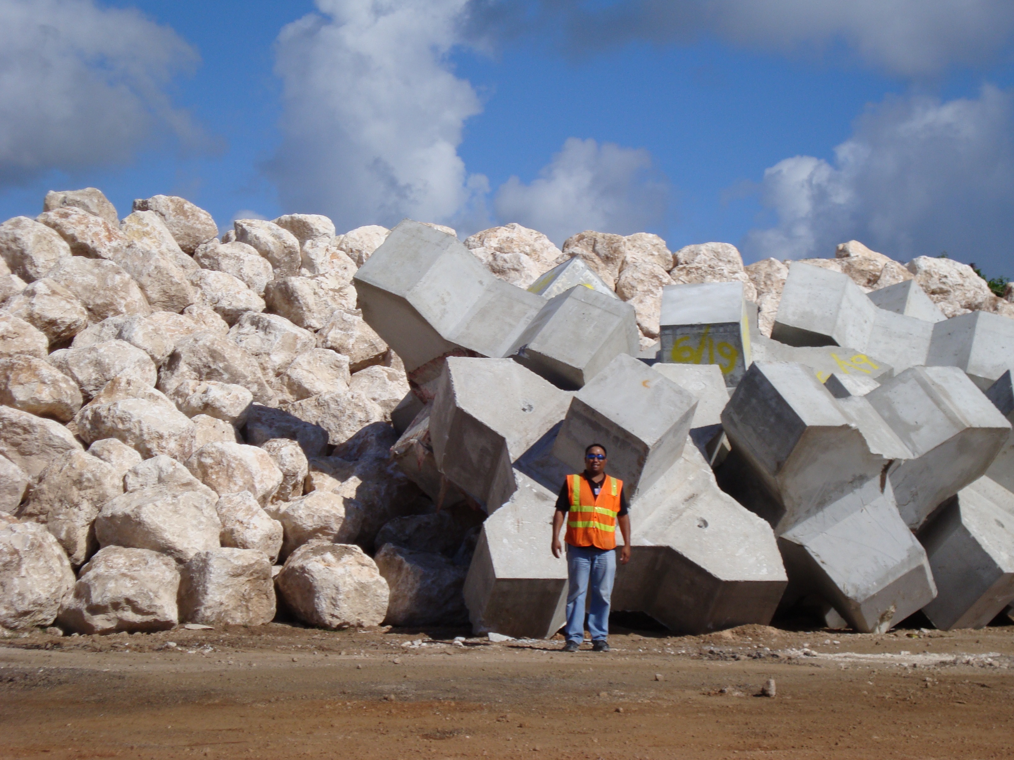 Large Xbloc (8.0m3) on trial placement area